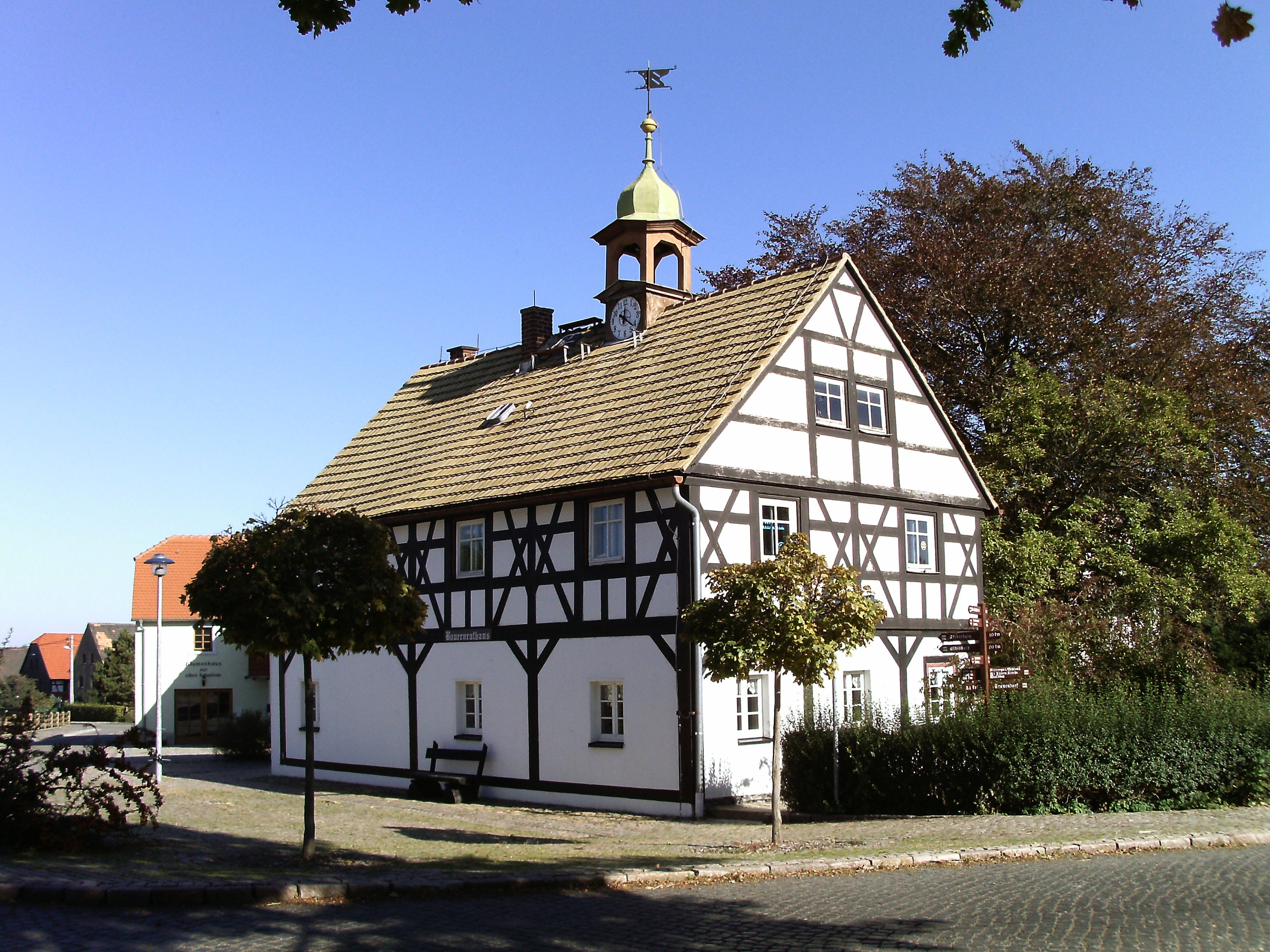 "Peasants' town hall" in Priessnitz (Frohburg, Leipzig district, Saxony)